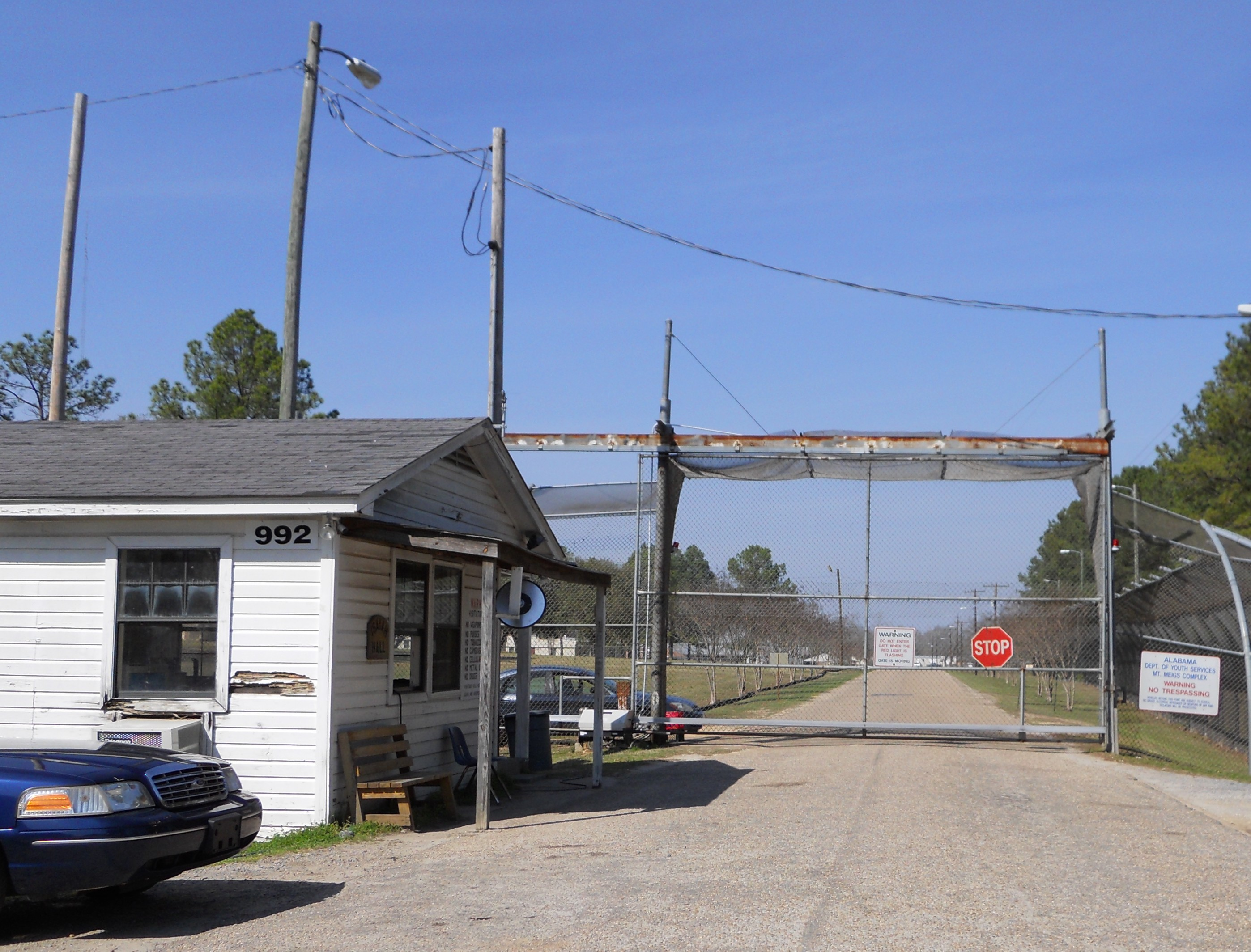 This is a photograph of the main entrance to the Mount Meigs Campus which is a youth facility of and the headquarters of the Alabama Department of Youth Services.